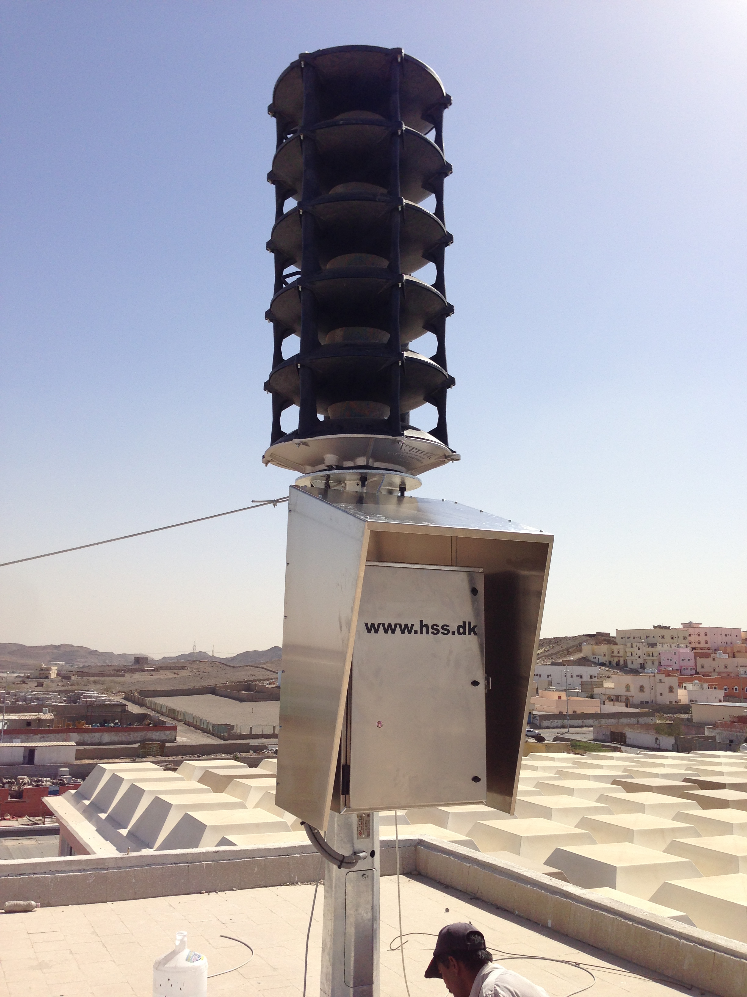 Saudi Arabian Warning sirens system